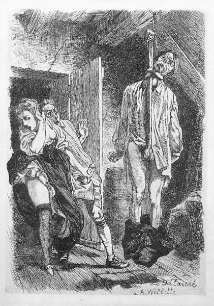 The neglected Dessins de Martin van Maele. Illustration de La Grande Danse macabre des vifs, 1905.